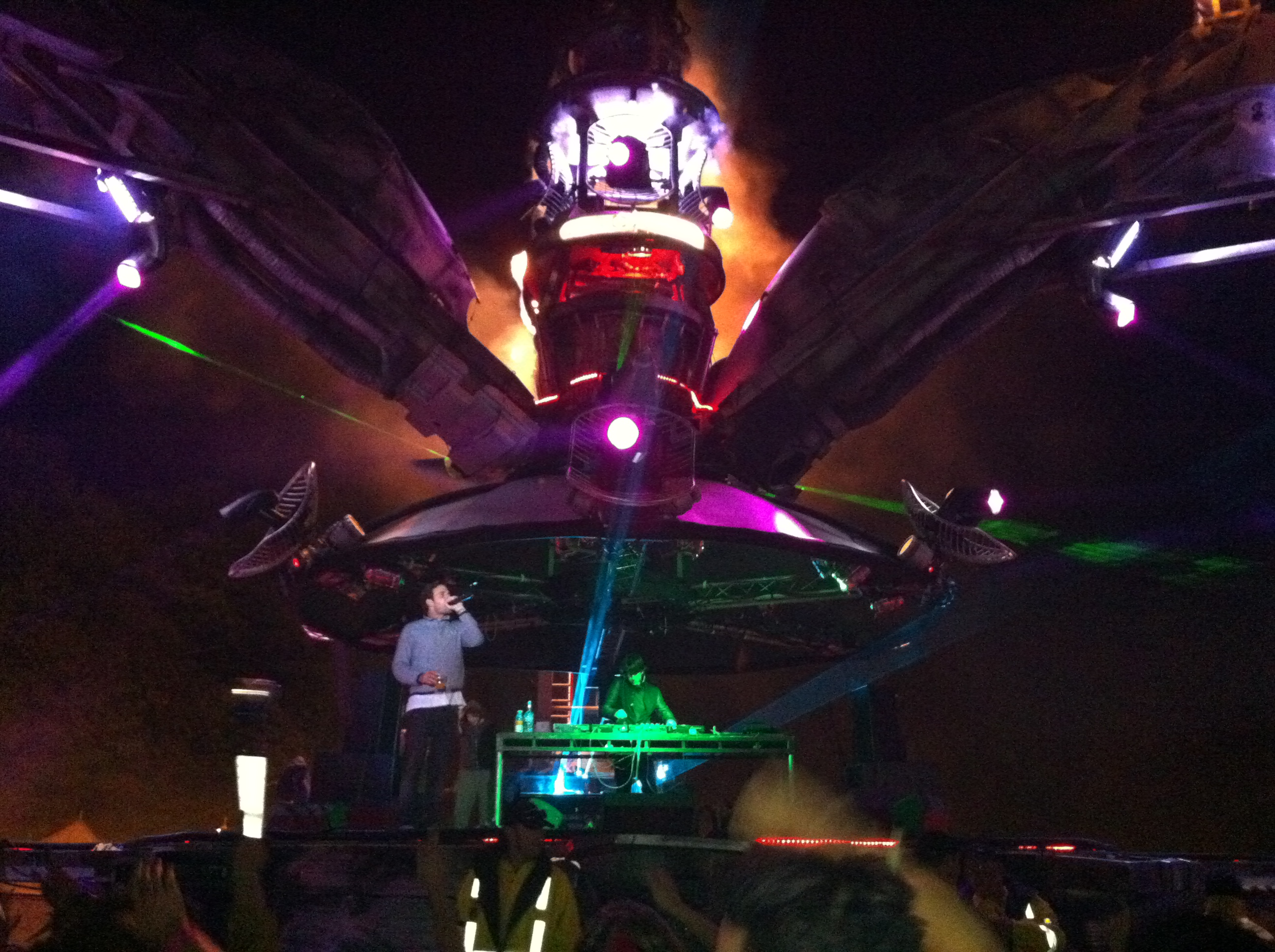 The Audio Bullys, seen performing at Bestival 2010, held on the Isle of Wight. This performance was at the Arcadia Spider Stage, with lasers forming part of the lighting.